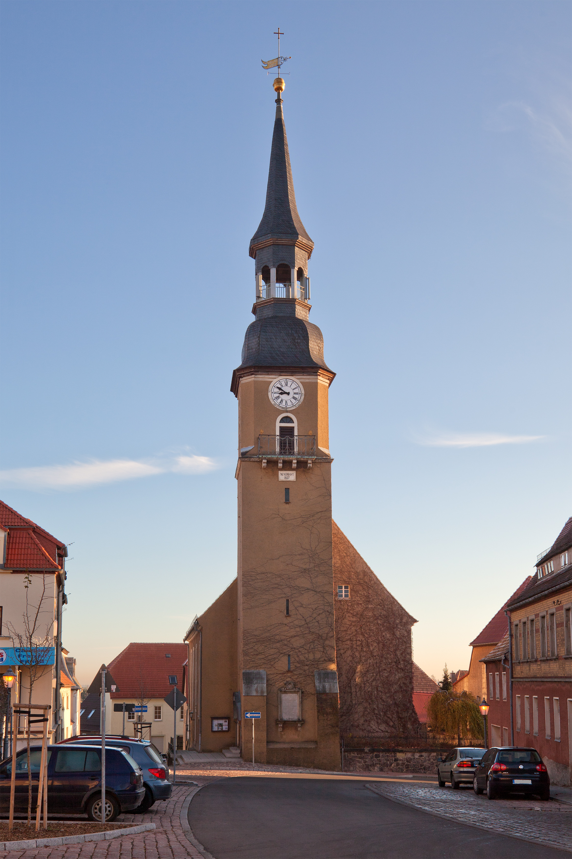 Siebenlehn, Saxony, church